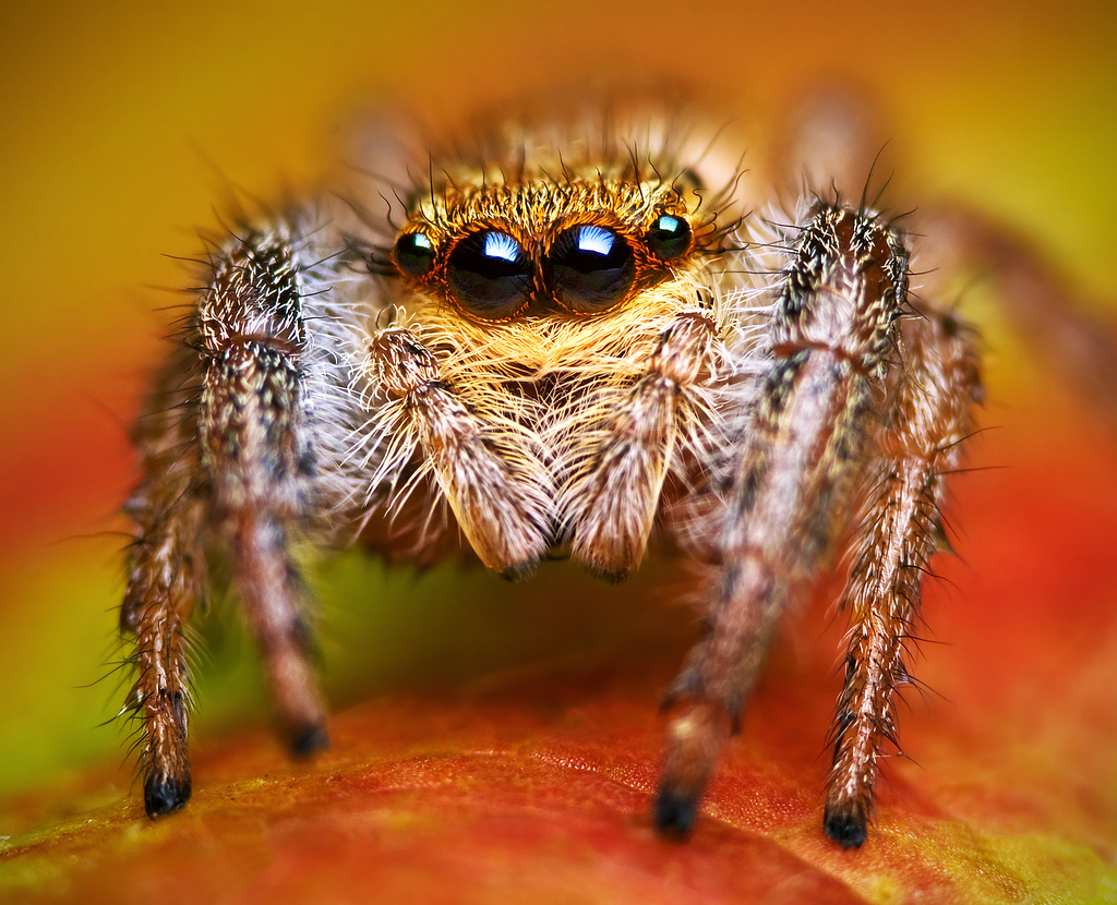 I took this photo with CanonEOS40D photocamera, Kenko extention tubes + CanonEF100mmMacroUSM lens + Kenko close up filter. I captured this jumping spider last summer. This is non stacked photo... I think that the colours in this photo is a little to bright, do you also think so? Please have a view of full size... Thanks :) Exif data